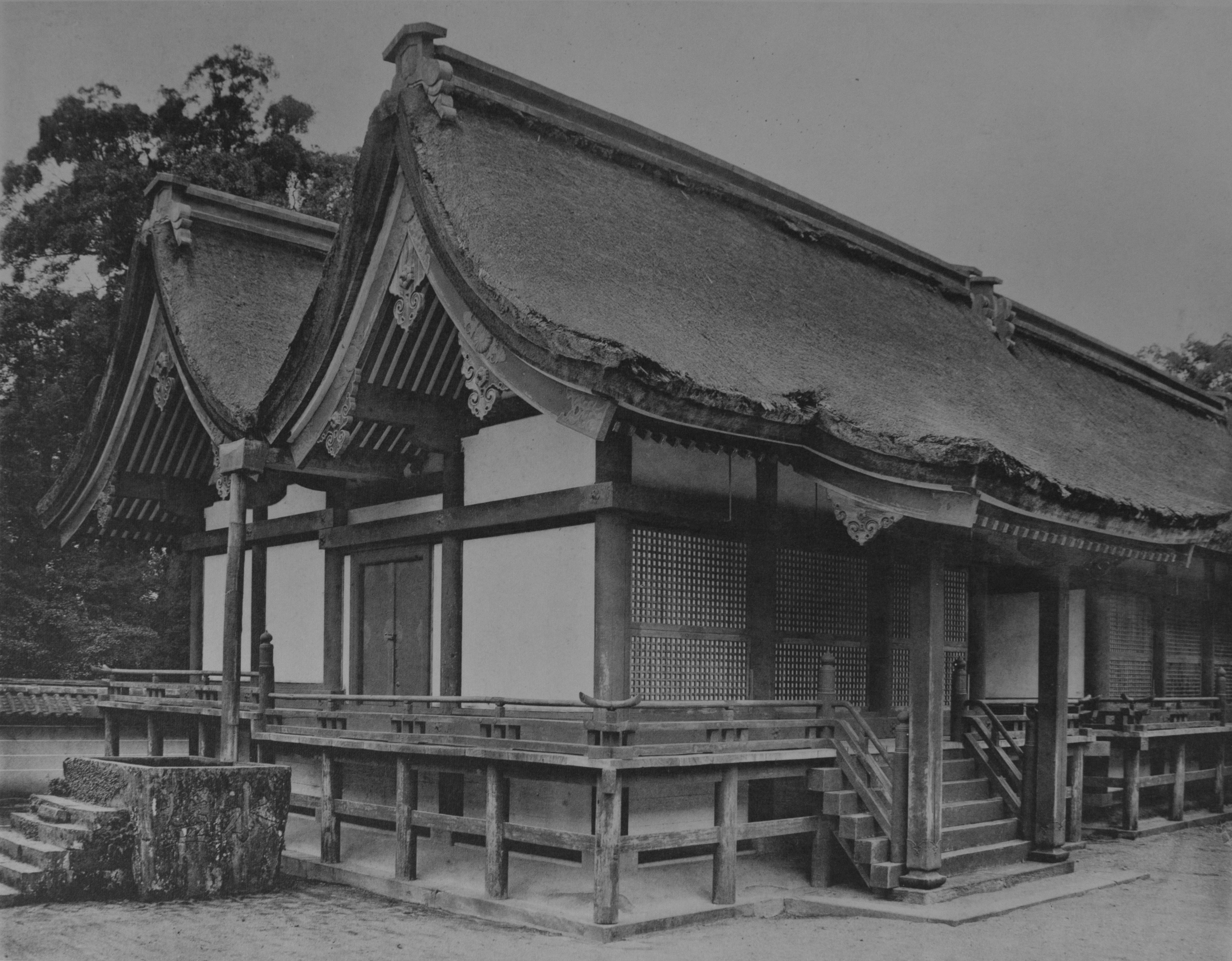 Usa Hachimangu, Oita, Japan